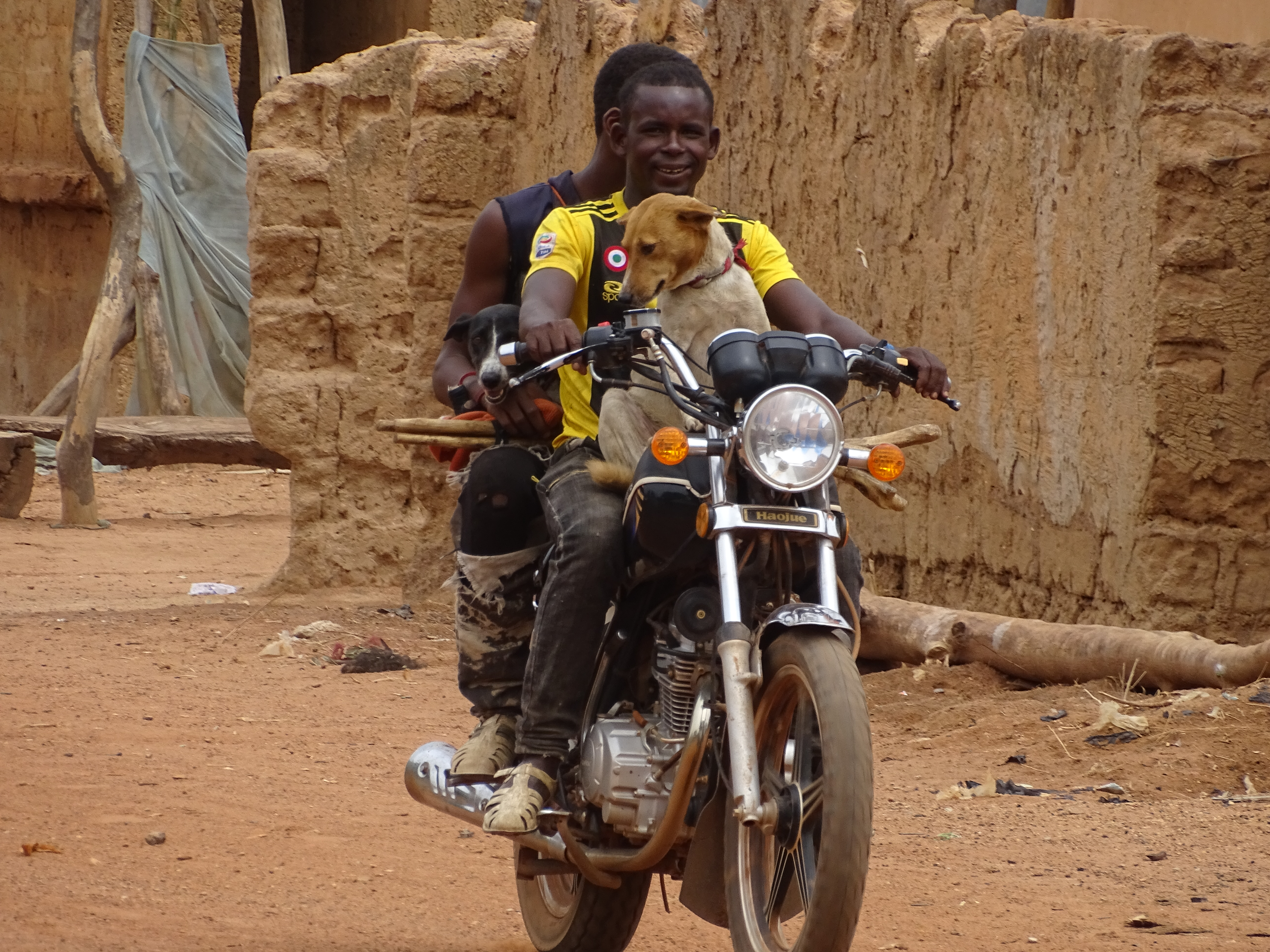 The motorcycle is designed for fast movement or access is very limited for vehicles, the motorcycle is the most used means for the transport of men, goods, animals in the most hostile environments it is very important significant socio-economic. This is an image with the theme "Africa on the Move or Transport" from: Benin